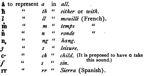 Additional letters for the Volapük alphabet designed by Johann Martin Schleyer, found on the Internet Archive - page 13.